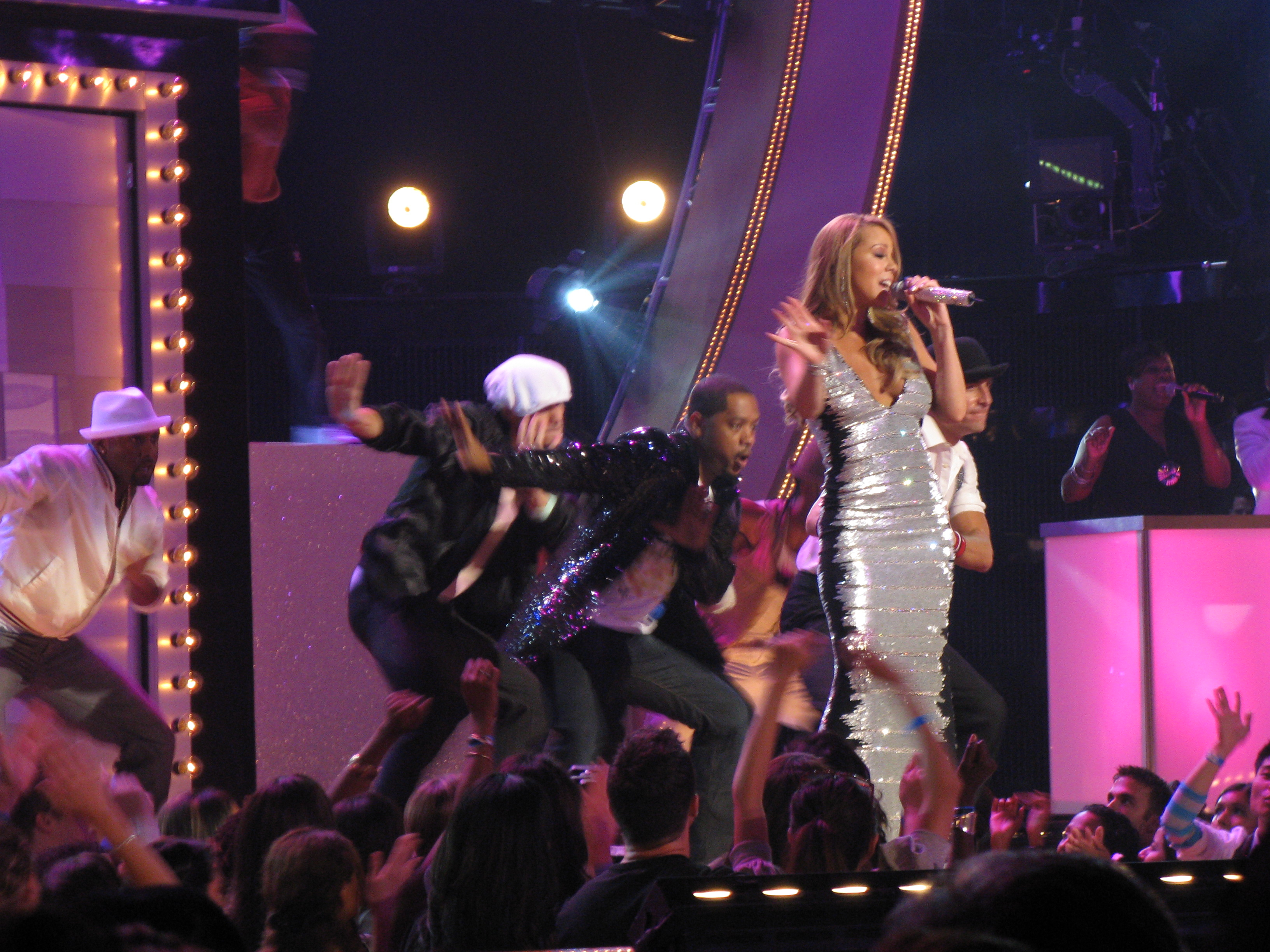 Mariah Carey performing "I'm That Chick" at the Fashion Rocks event (New York City) in September 2008